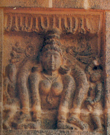 Kuncitam karana in the Chidambaram temple (India